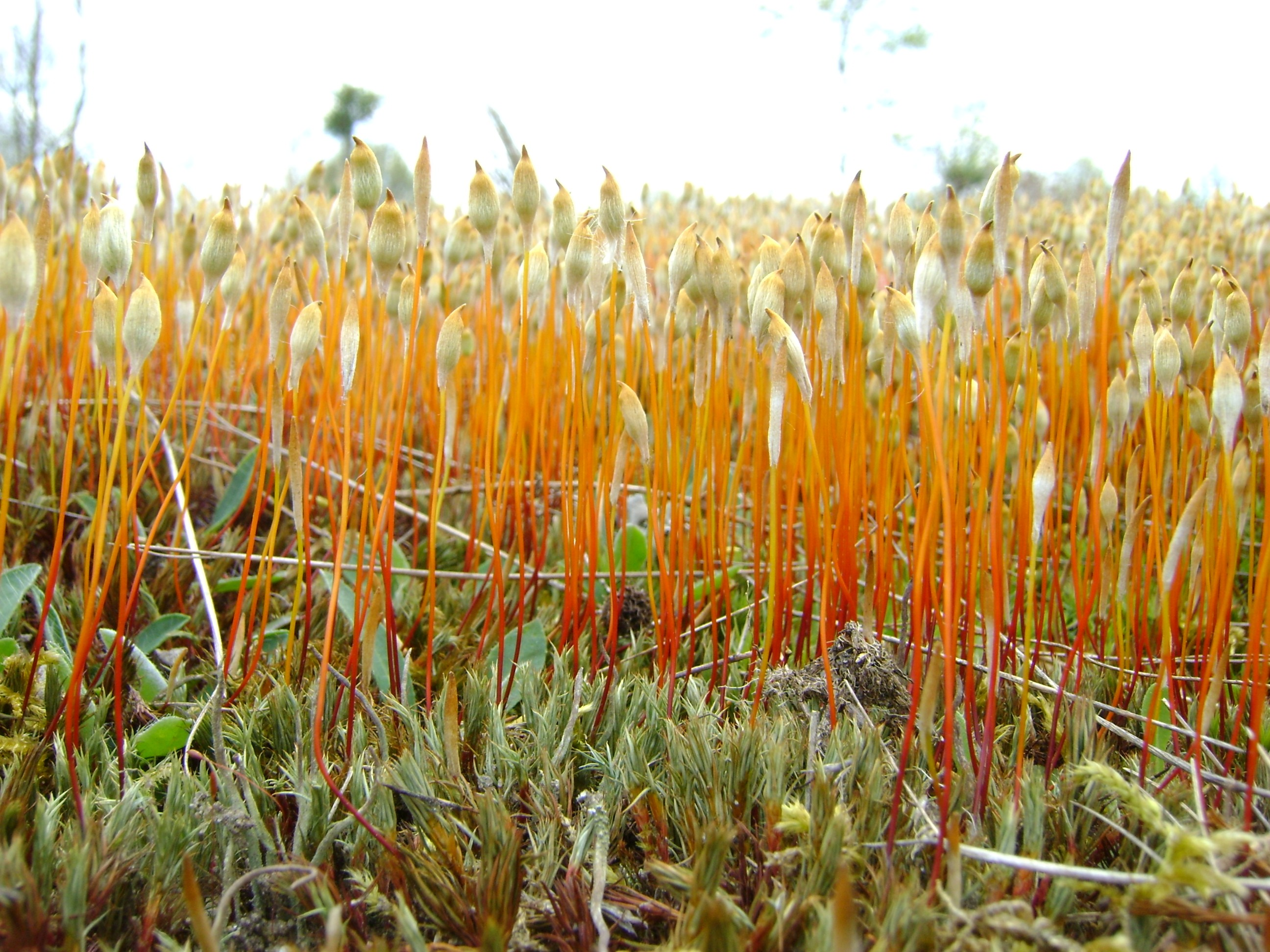 Polytrichum junioperinum